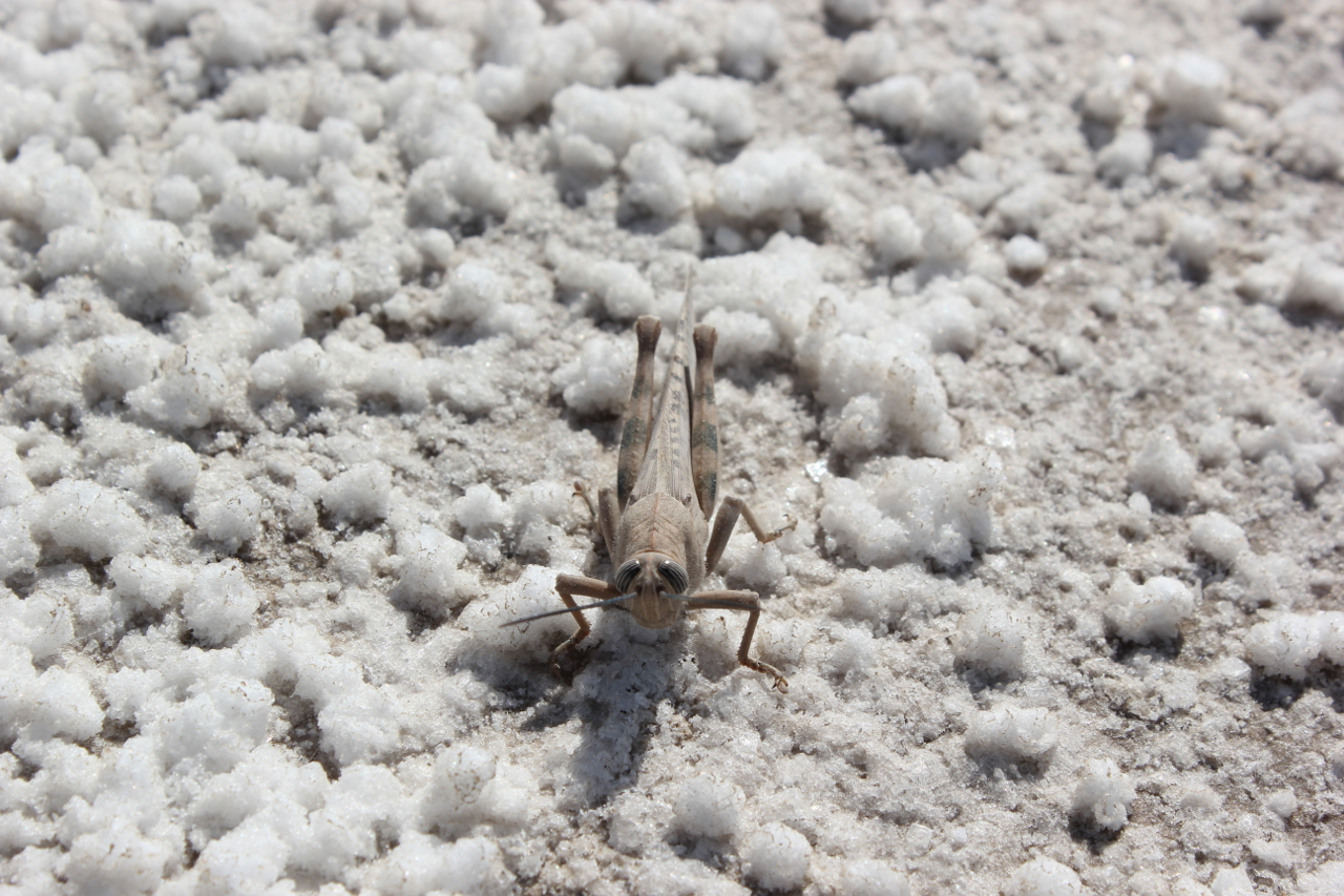 Grasshopper Rann of Kutch